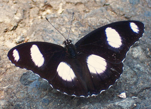 Hypolimnas missipus male, from Bogor, West Java, Indonesia